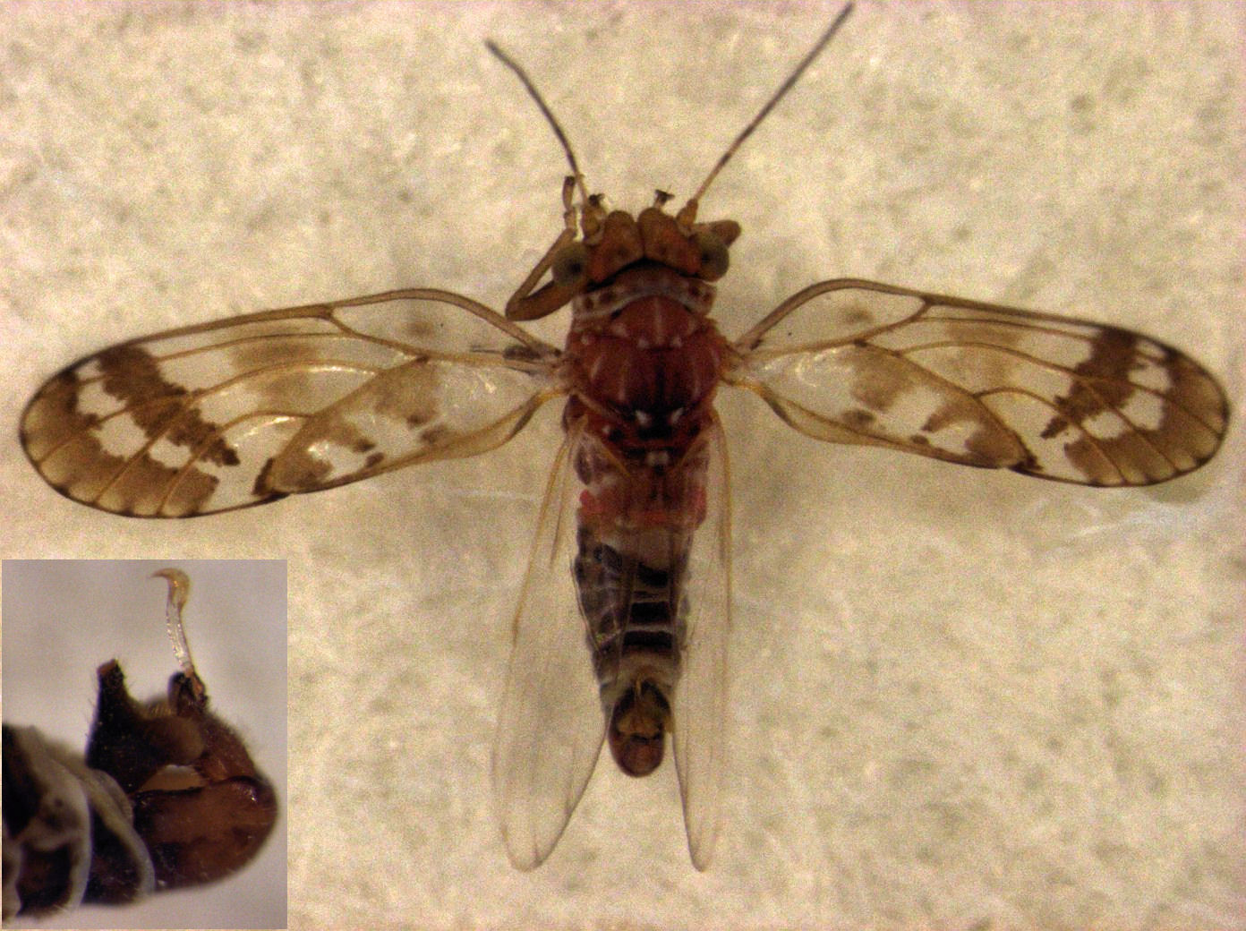 Acizzia conspicua (male with terminalia inset), body length about 2.4 mm